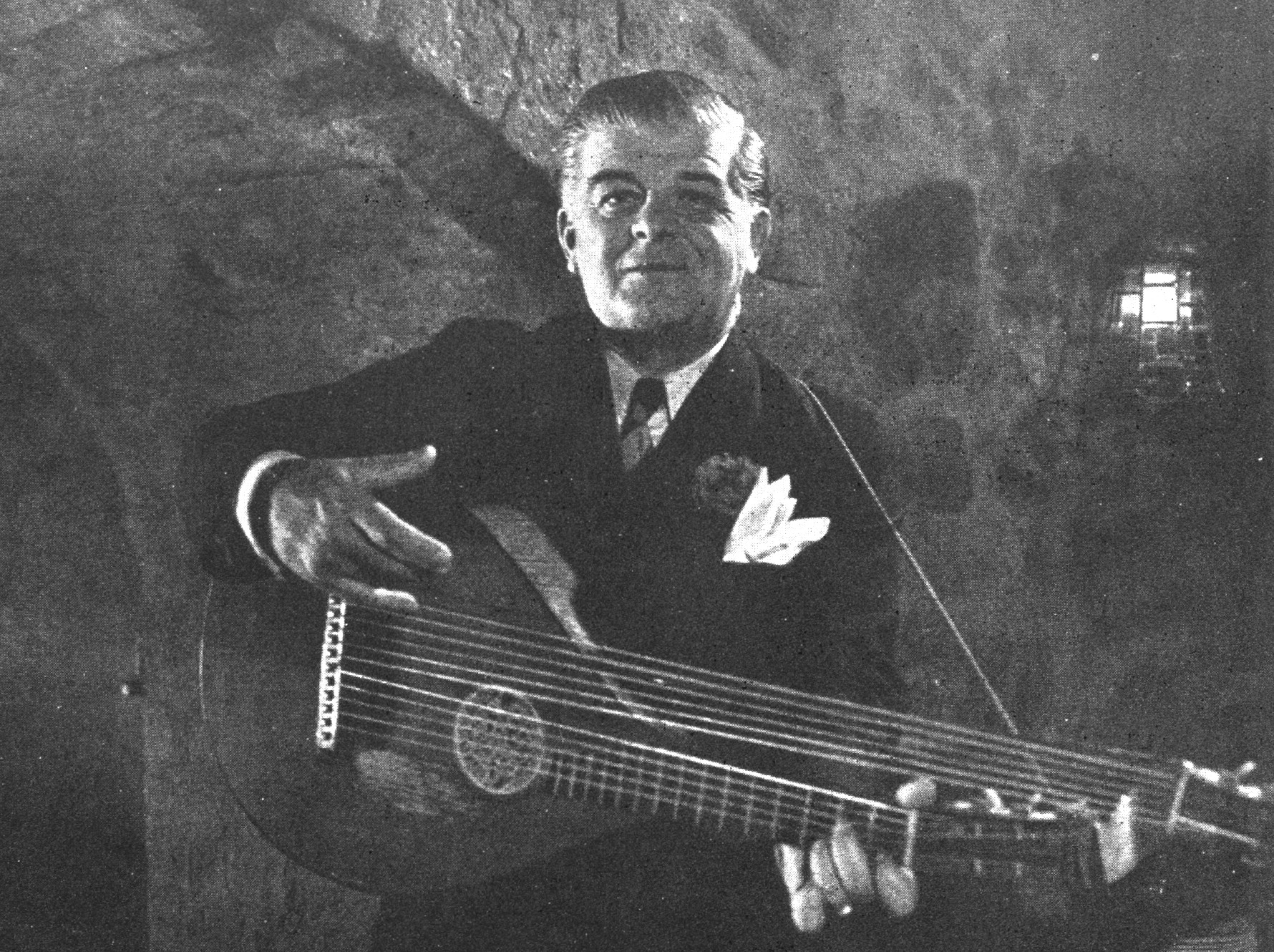 Evert Taube (1890-1976), Swedish composer, singer, author and artist